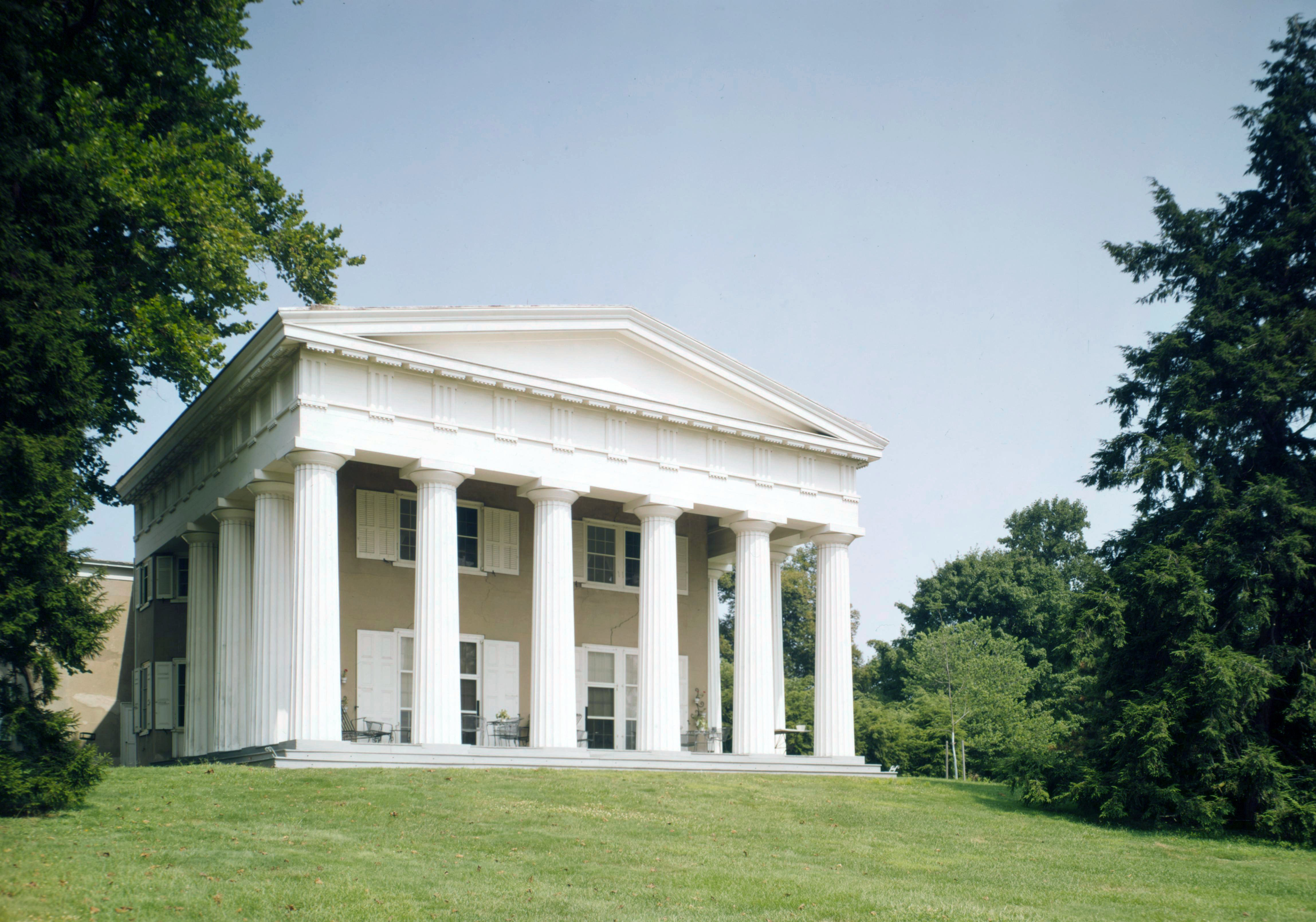 The Andalusia — also known as the Nicholas Biddle Estate. 1790s Greek Revival style house located in Bensalem Township, Bucks County, eastern Pennsylvania. A Historic American Buildings Survey—HABS image by Jack Boucher (1976).